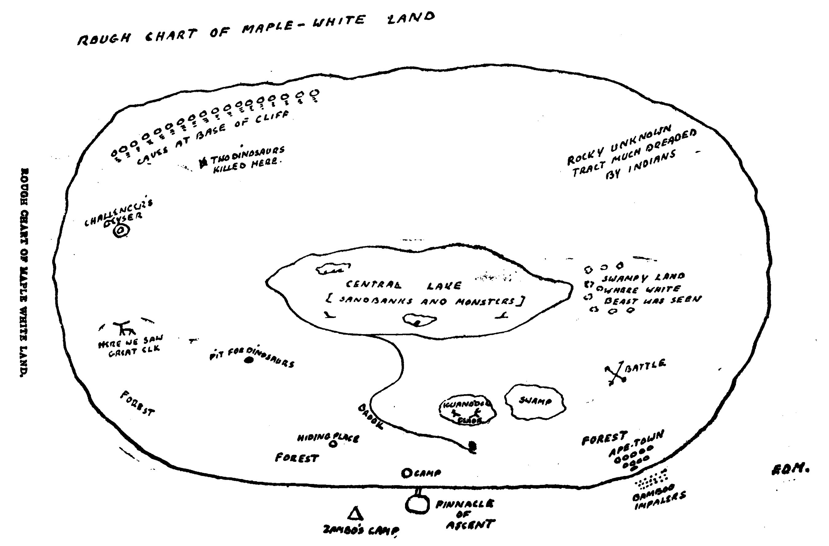 A page scan of a book The Lost World by Arthur Conan Doyle image cropped, captions removed Orginal description taken from the book